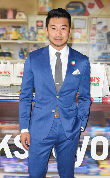 Liu at the 2016 premiere of Kim's Convenience at the CBC